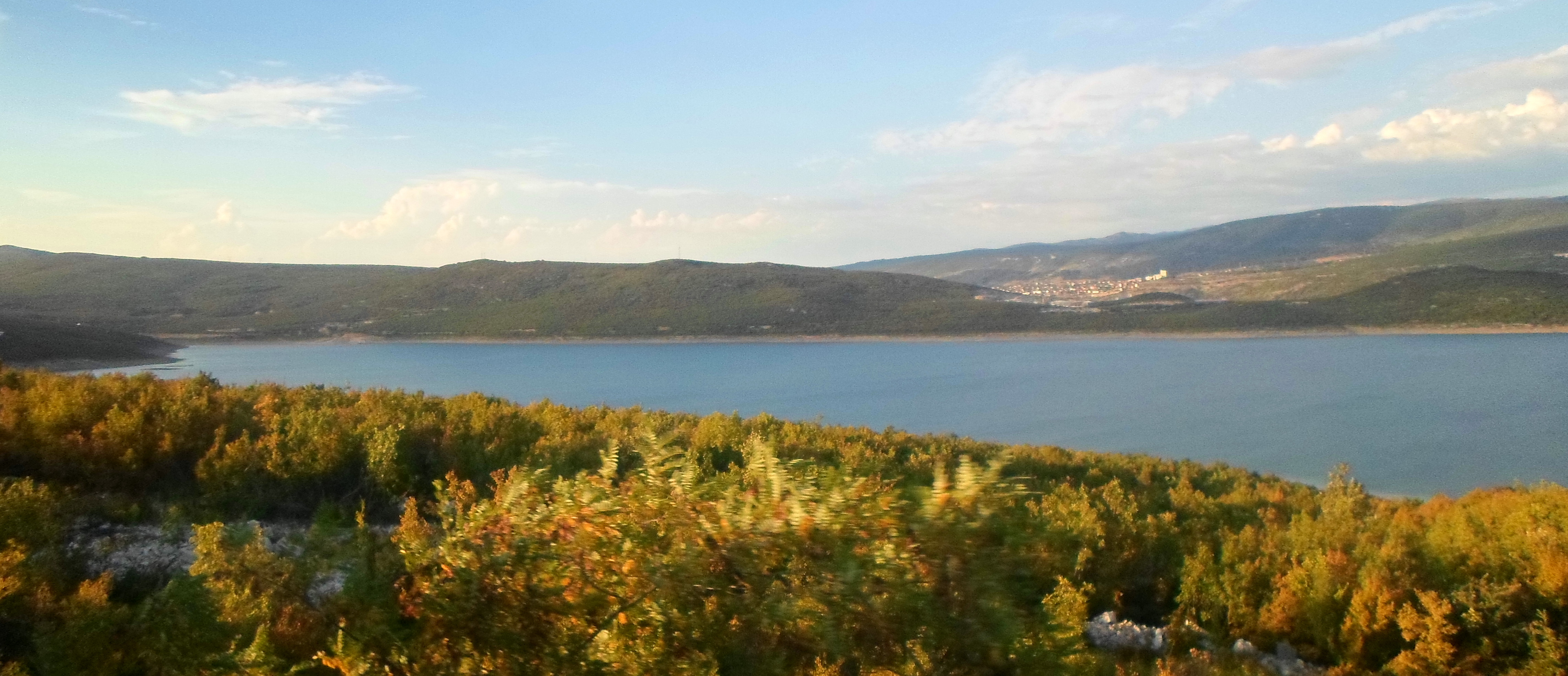 Bilećko jezero sa okolinom. This image was uploaded as part of Trace of Soul 2016.